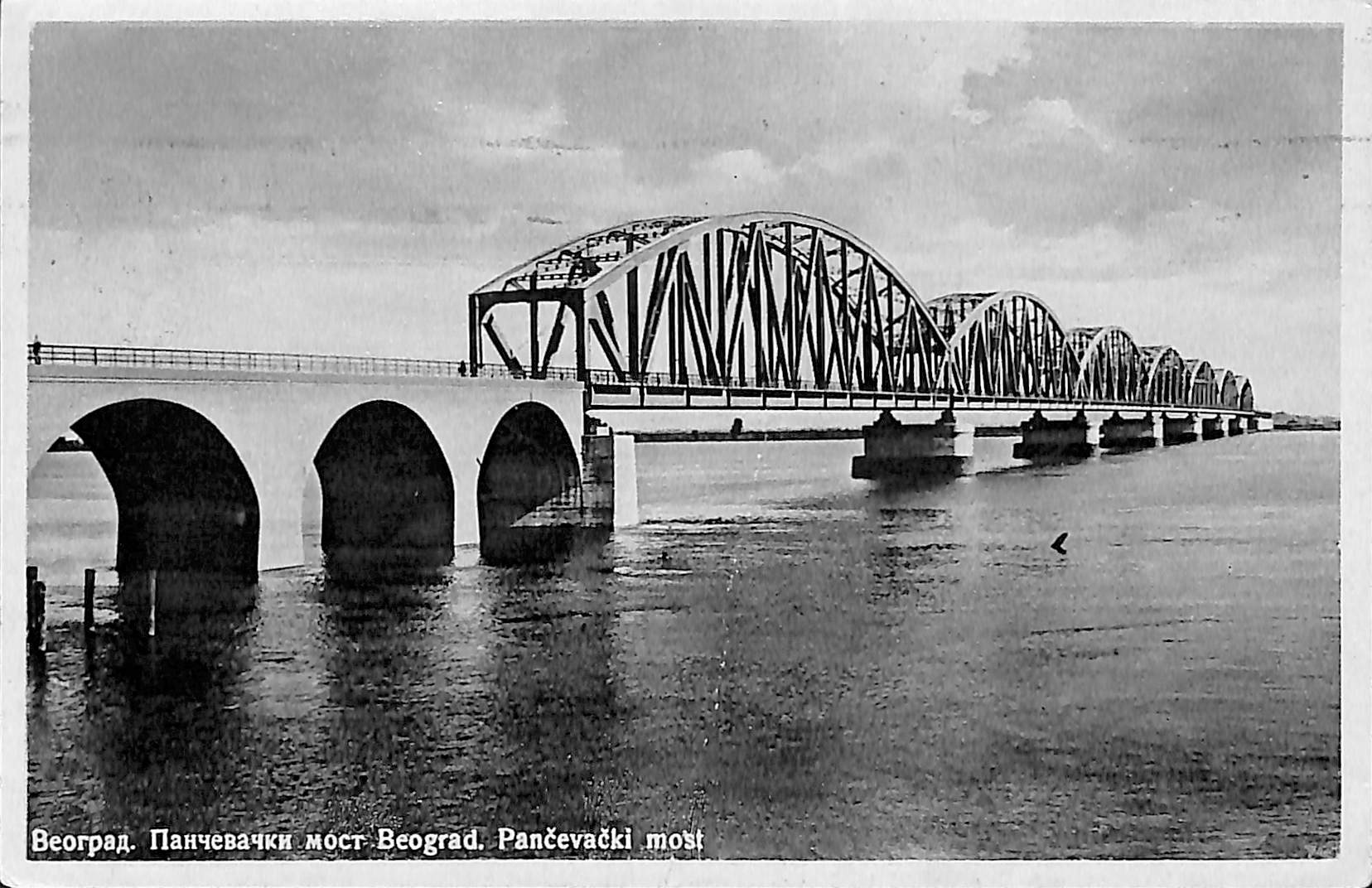 Pančevo Bridge